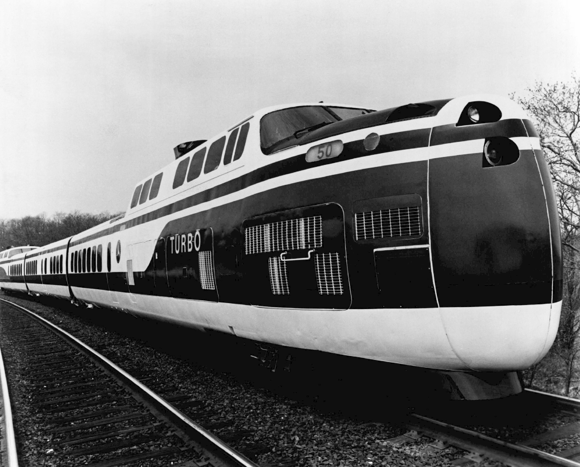 Photo of United Aircraft's Turbotrain, which was new at the time.